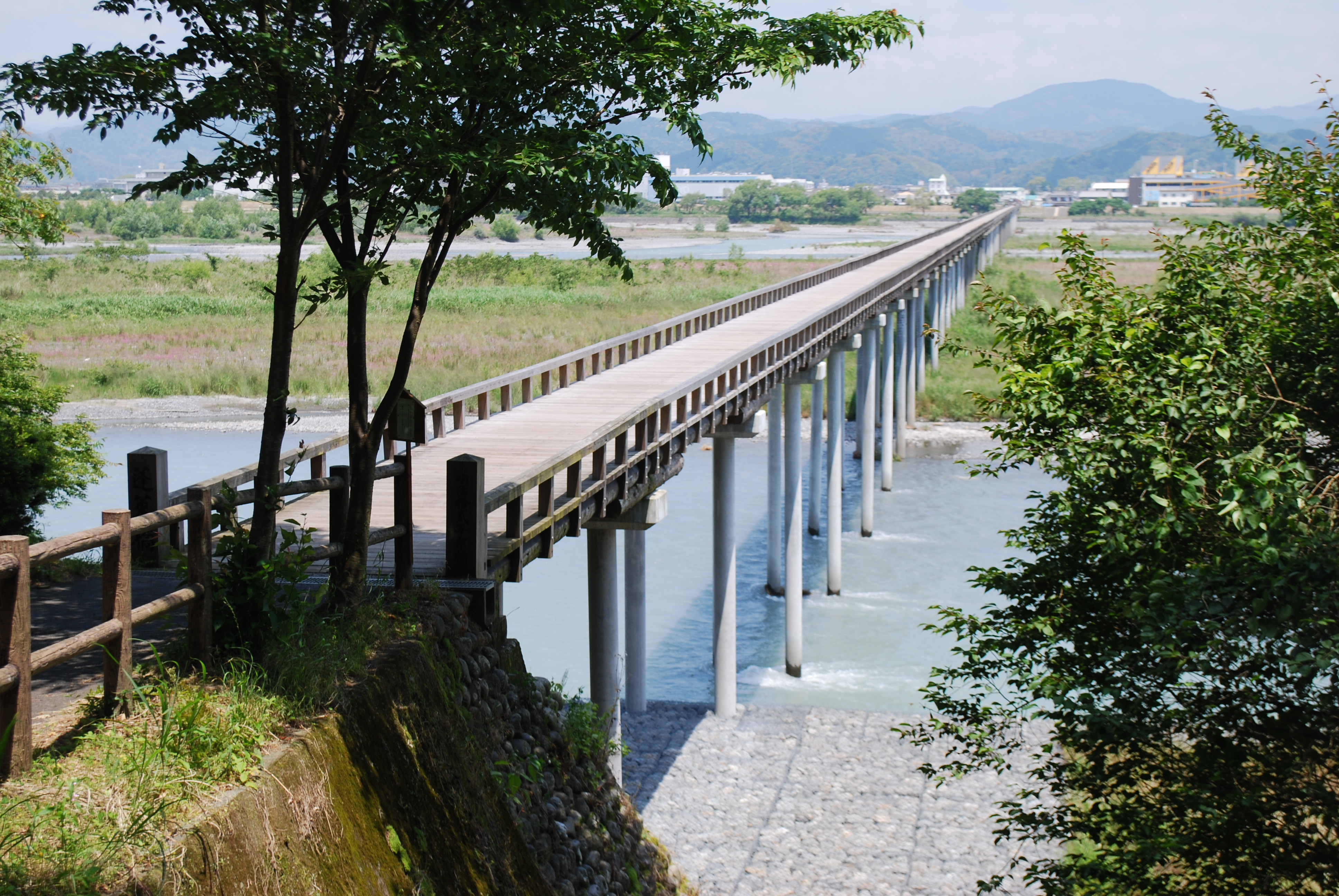 Horai-bridge,Oi-river,Shimada-city,Japan